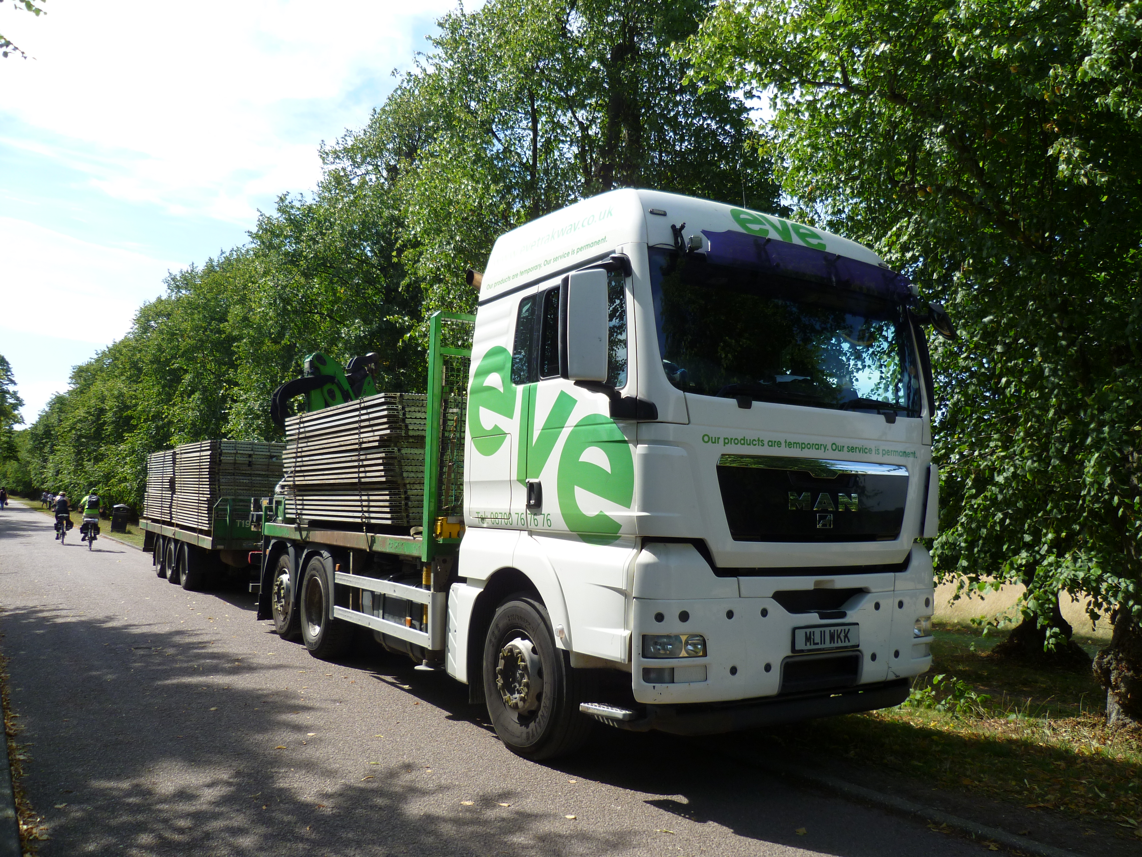 Eve Trackway